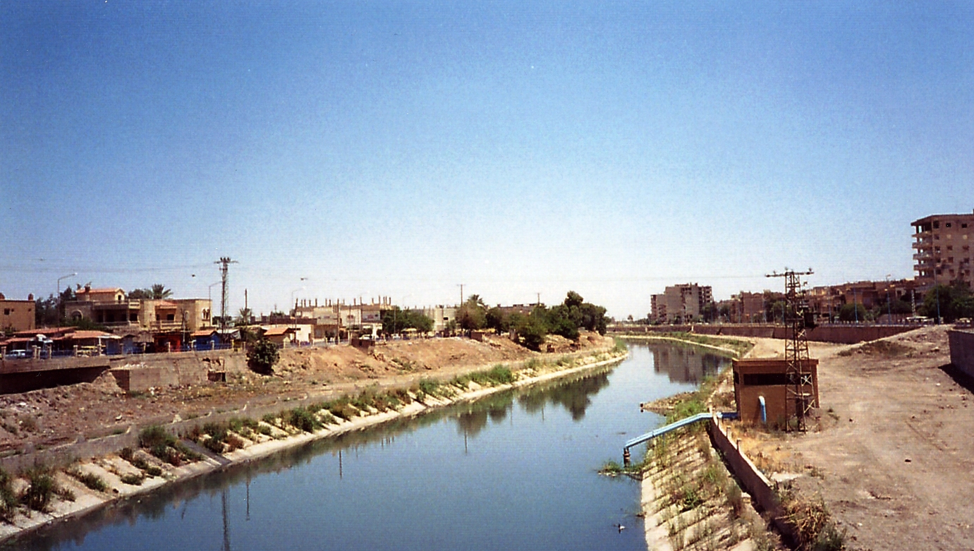 Photo: Soman